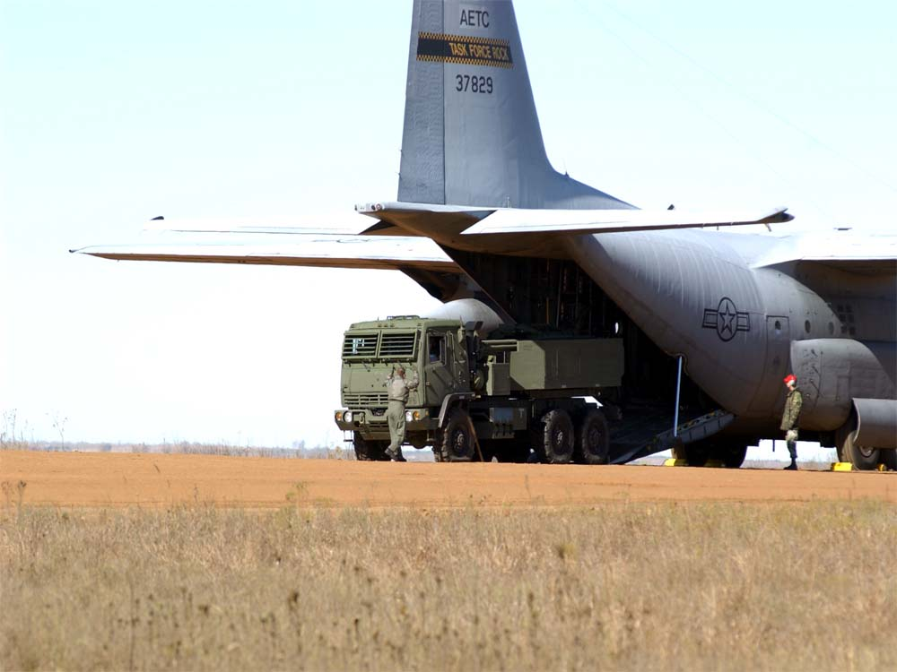 A High Mobility Artillery Rocket System rolls off an Air Force C-130 transport aircraft at the assault landing zone at Fort Sill, Okla., demonstrating the system's transportability.